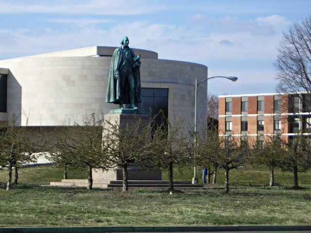 Statute in Ward Circle, NW Washington, DC American University's Katzen Arts Center stands in the background. Photograph by Asiir 14:19, 20 April 2006 (UTC)